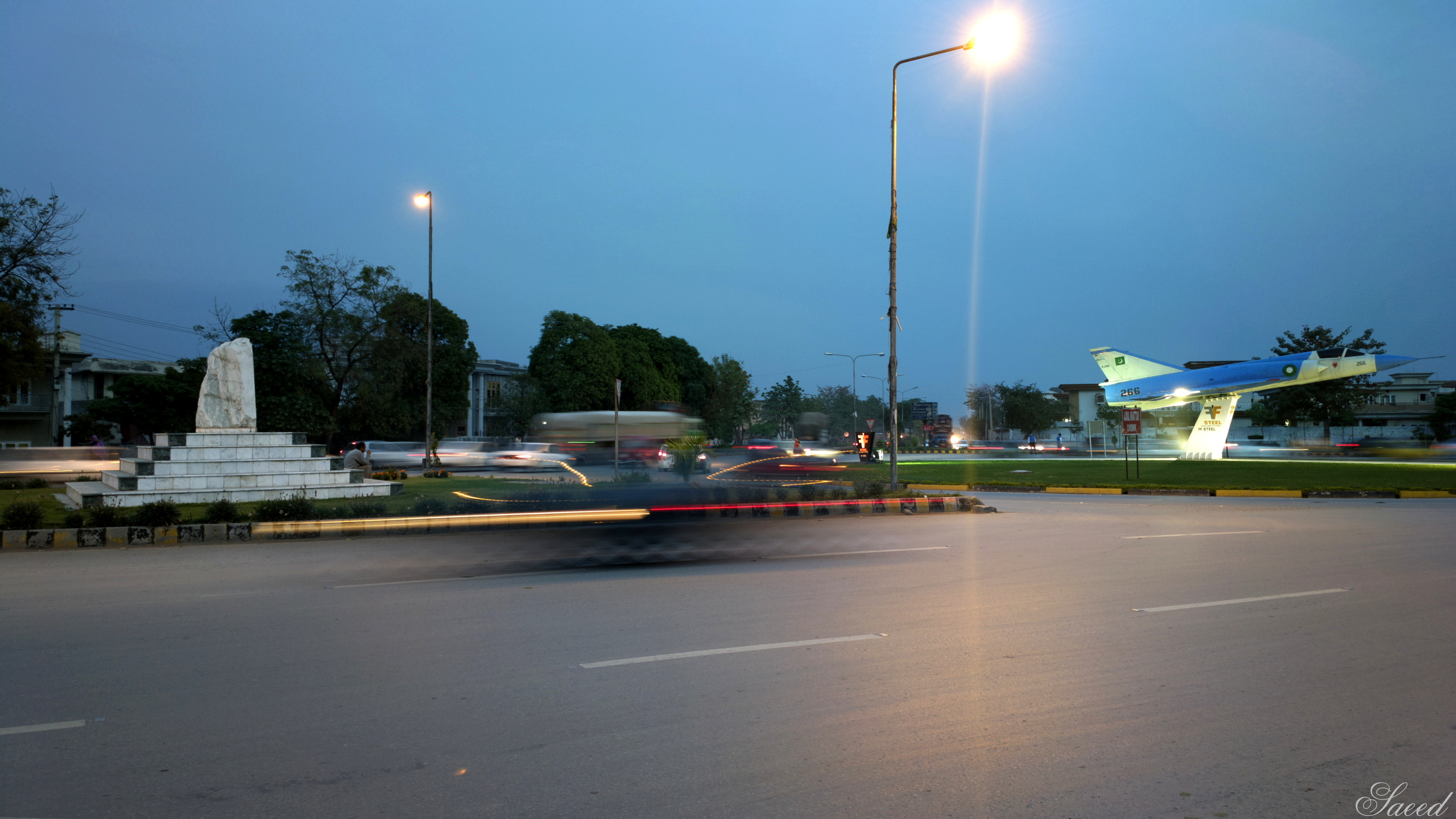 Hayatabad